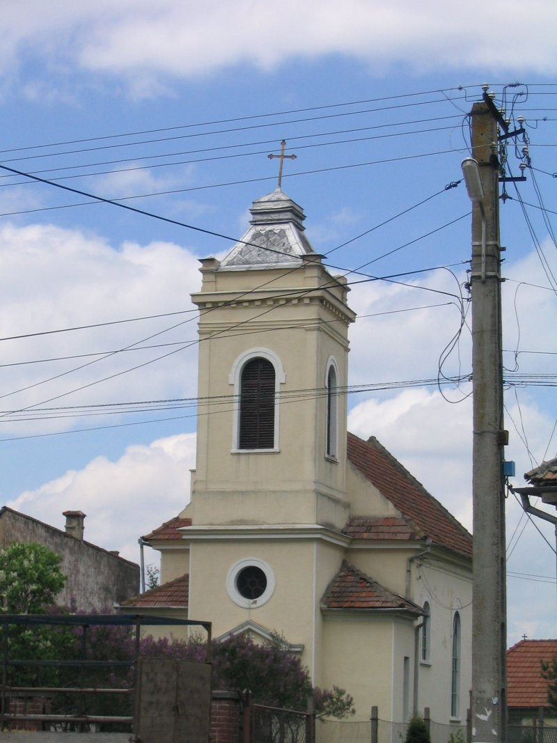 Roman cathocic church in Ozun (hu. Uzon, de. Usendorf), Covasna County, Transylvania, Romania